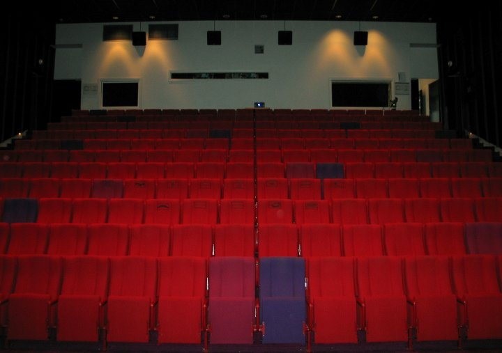 Store Bjørn cinema of European Film College in Ebeltoft, Denmark